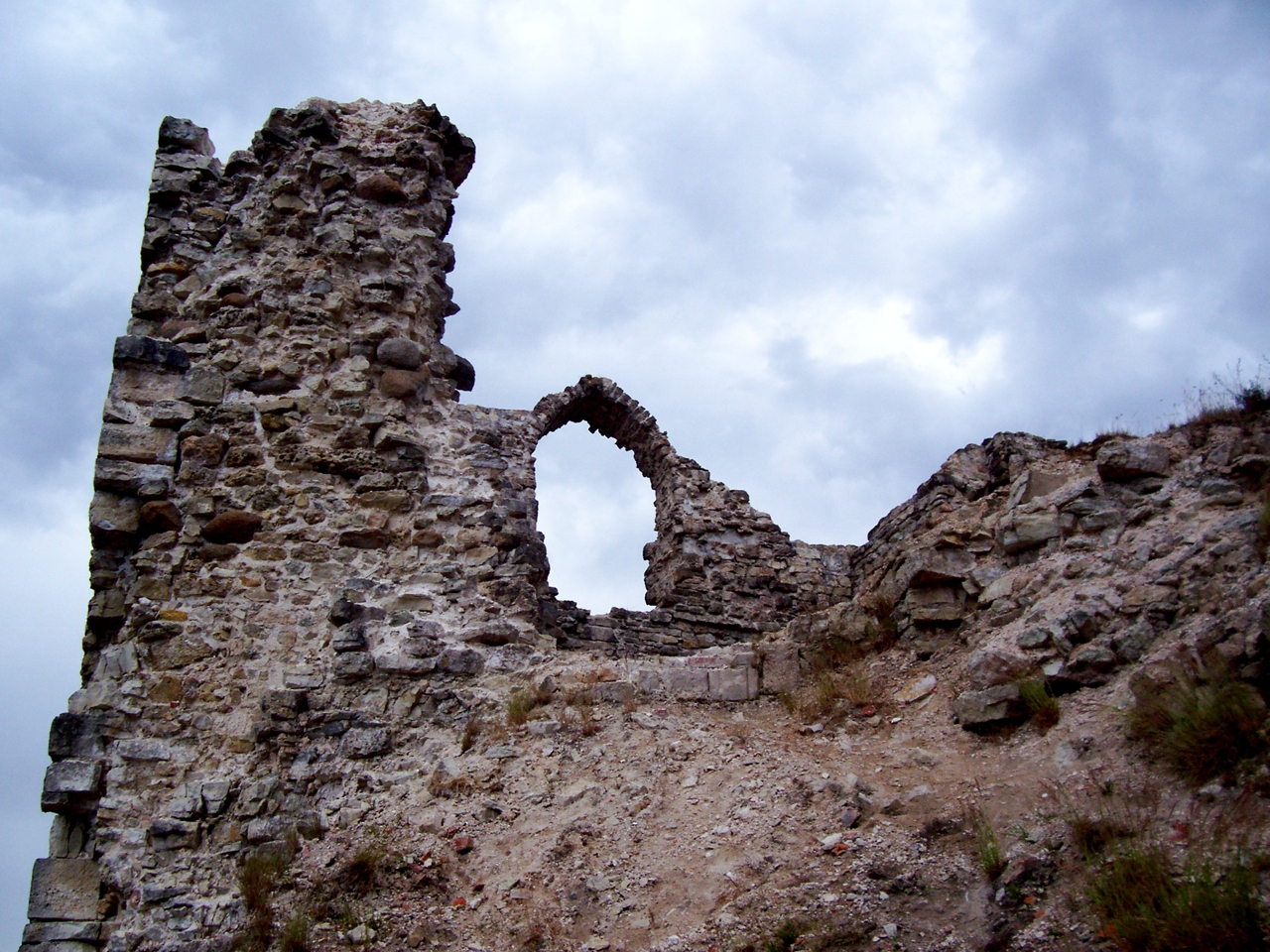 Koknese Castle, Latvia